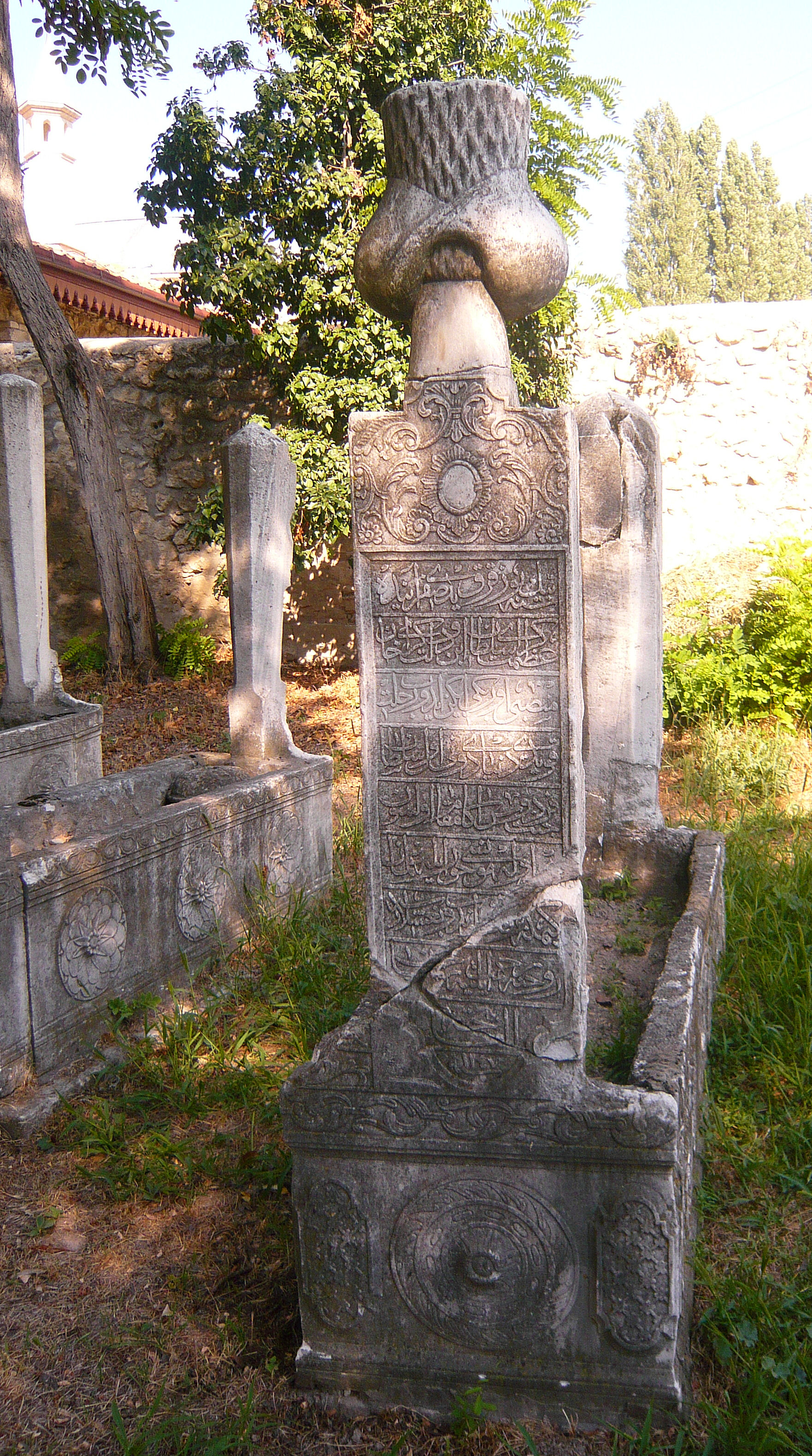 Khans cemetery in Bakhchisaray Palace